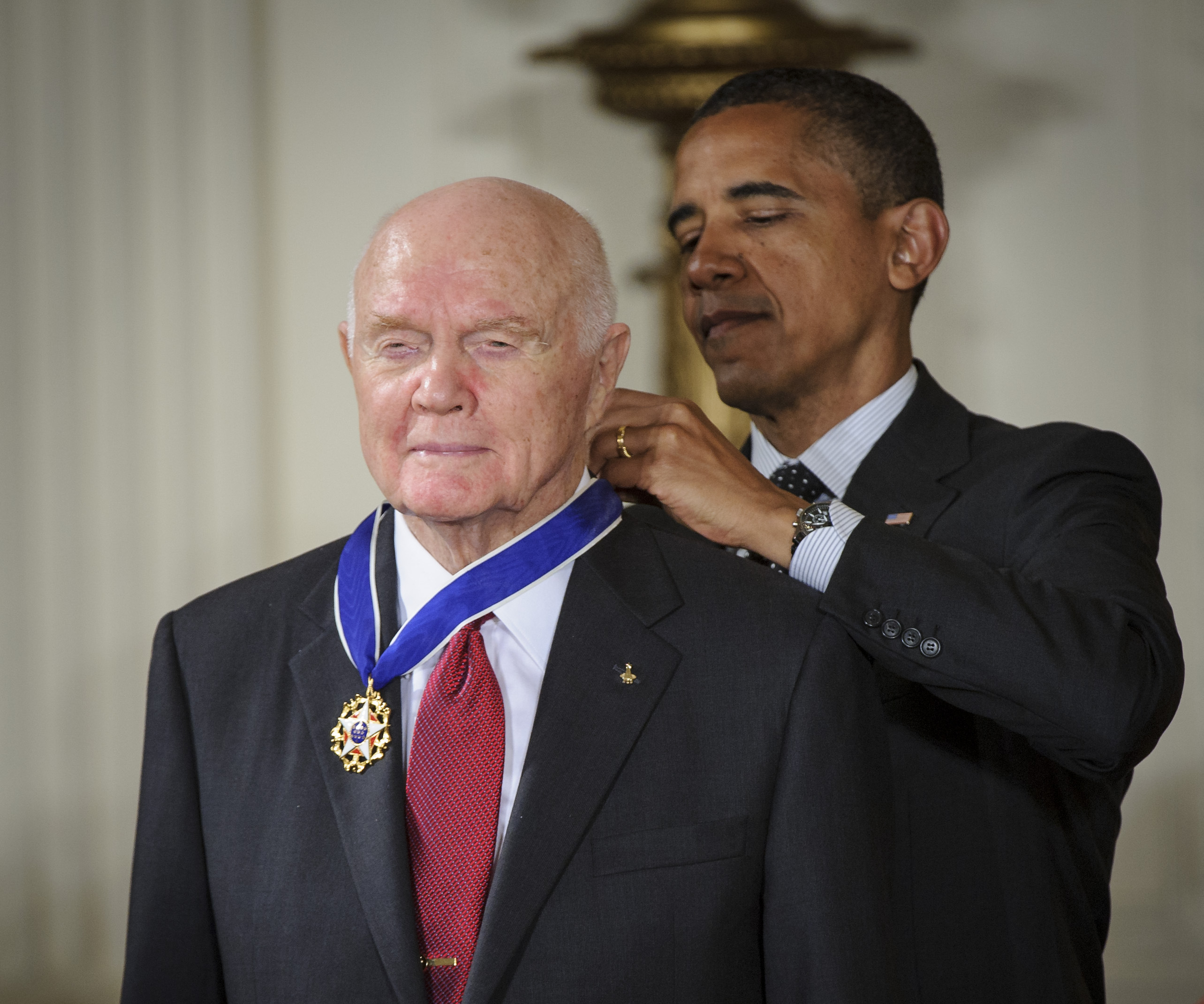 President Barack Obama presents the former United States Marine Corps pilot, astronaut and United States Senator John Glenn with the Medal of Freedom, 29 May, 2012.